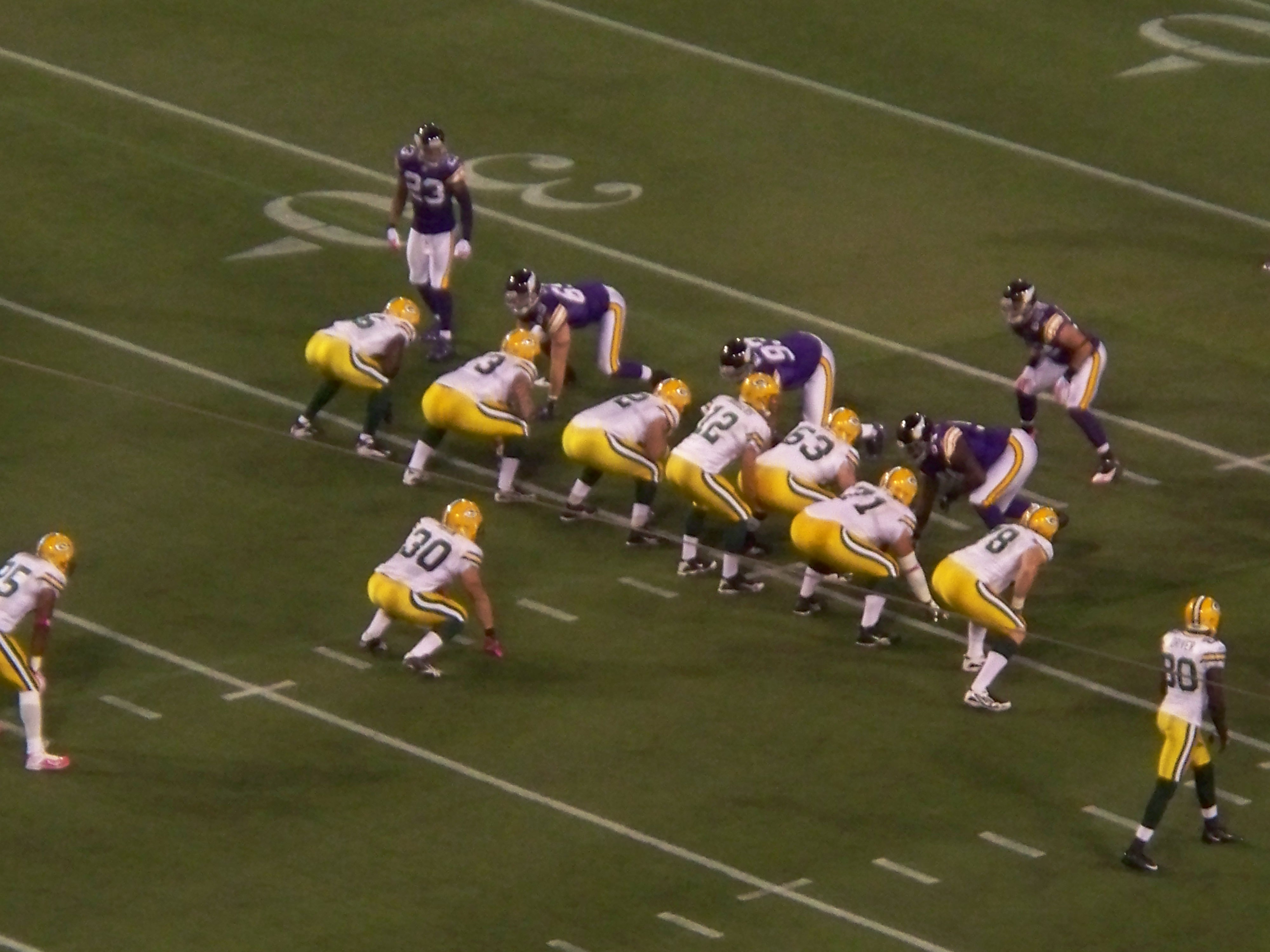 Week 4 game between the Minnesota Vikings and Green Bay Packers during the 2009 NFL season.